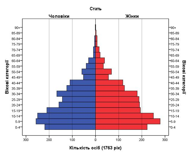 Population pyramid of Krolevets (Ukraine), based on the data of 1763 confessional records